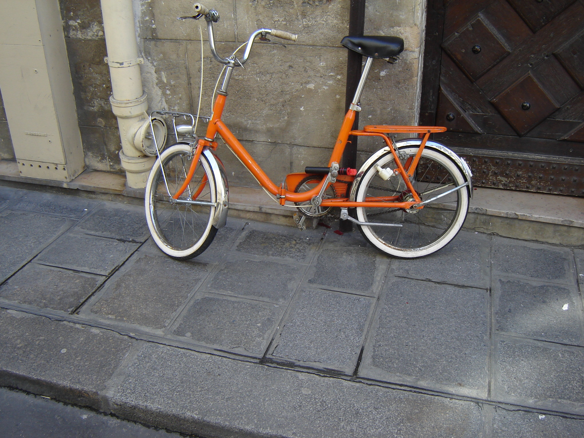 Orange folding bicycle in Paris.